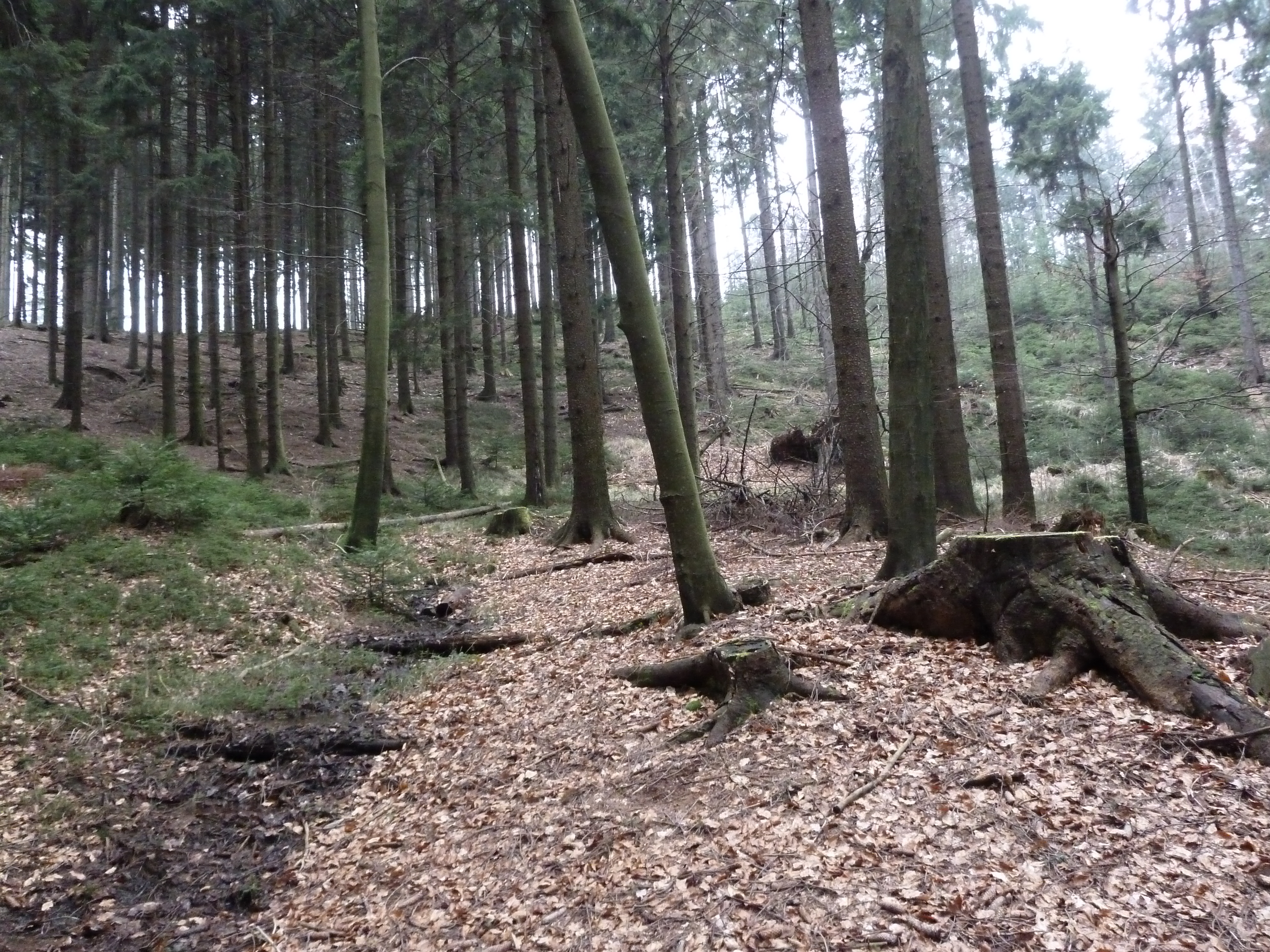 The source of Bolska river near the village of Trojane